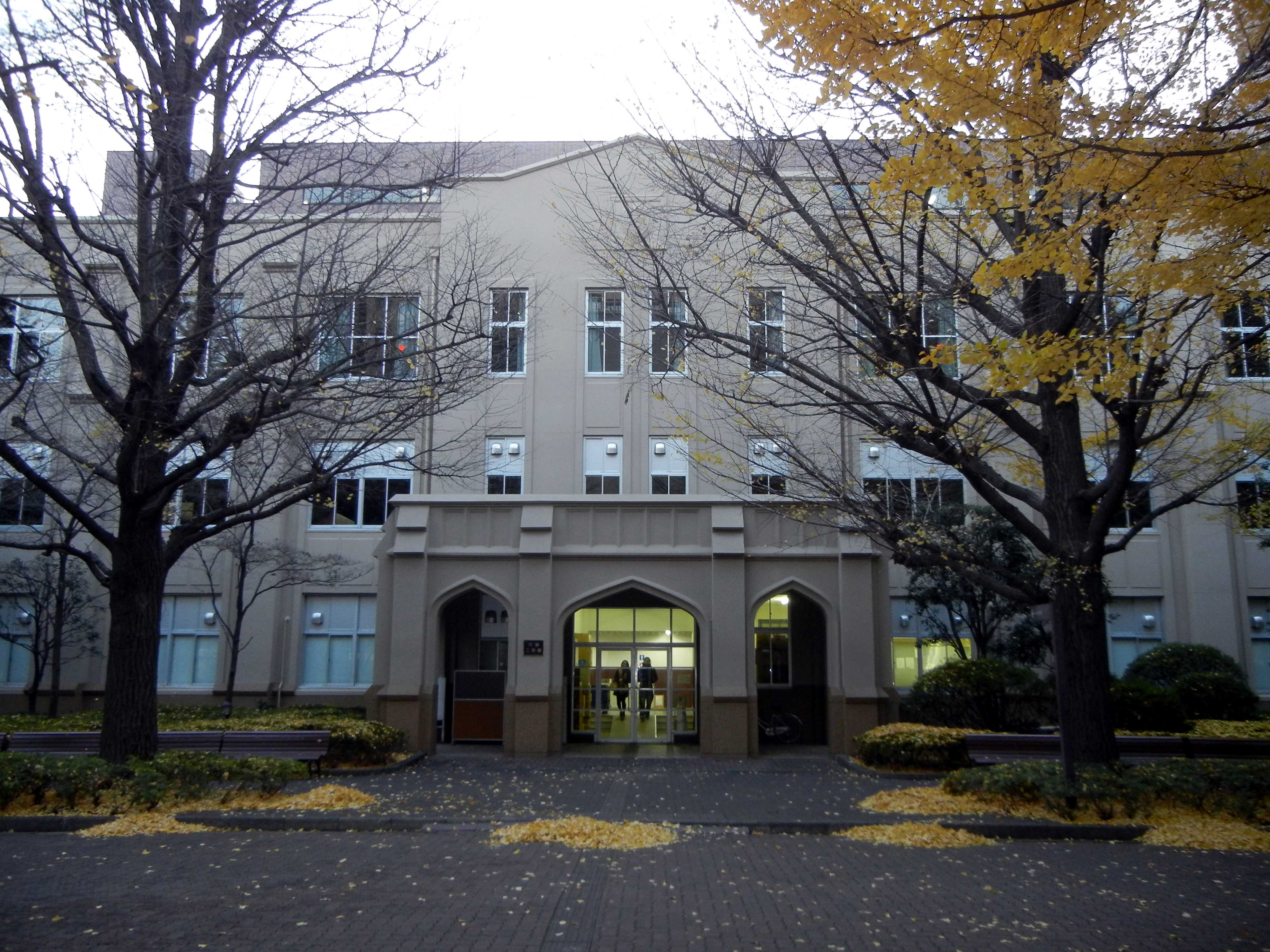 Aoyama Gakuin Aoyama Campus building number 2